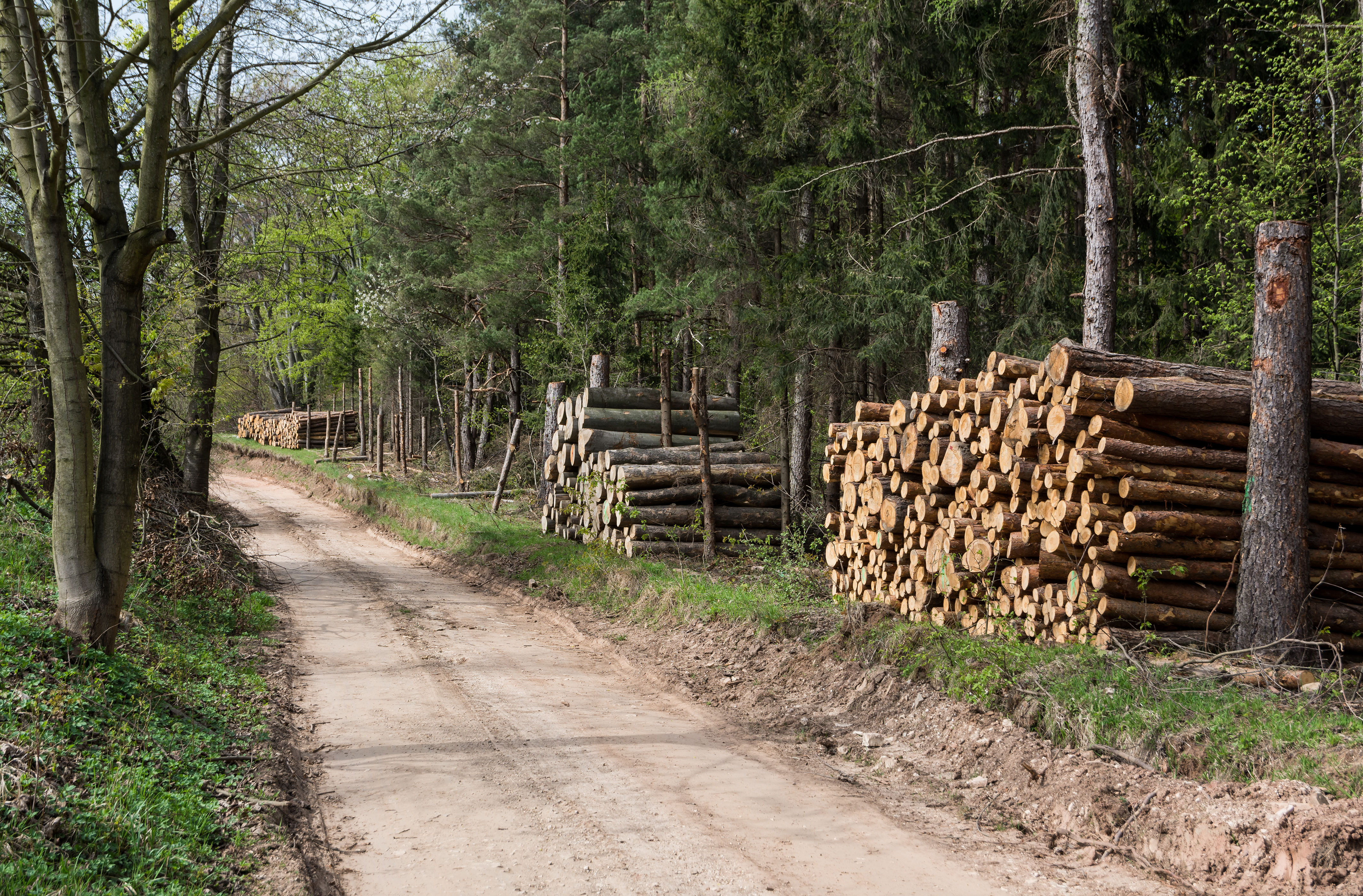 Forest road on Wapniarka